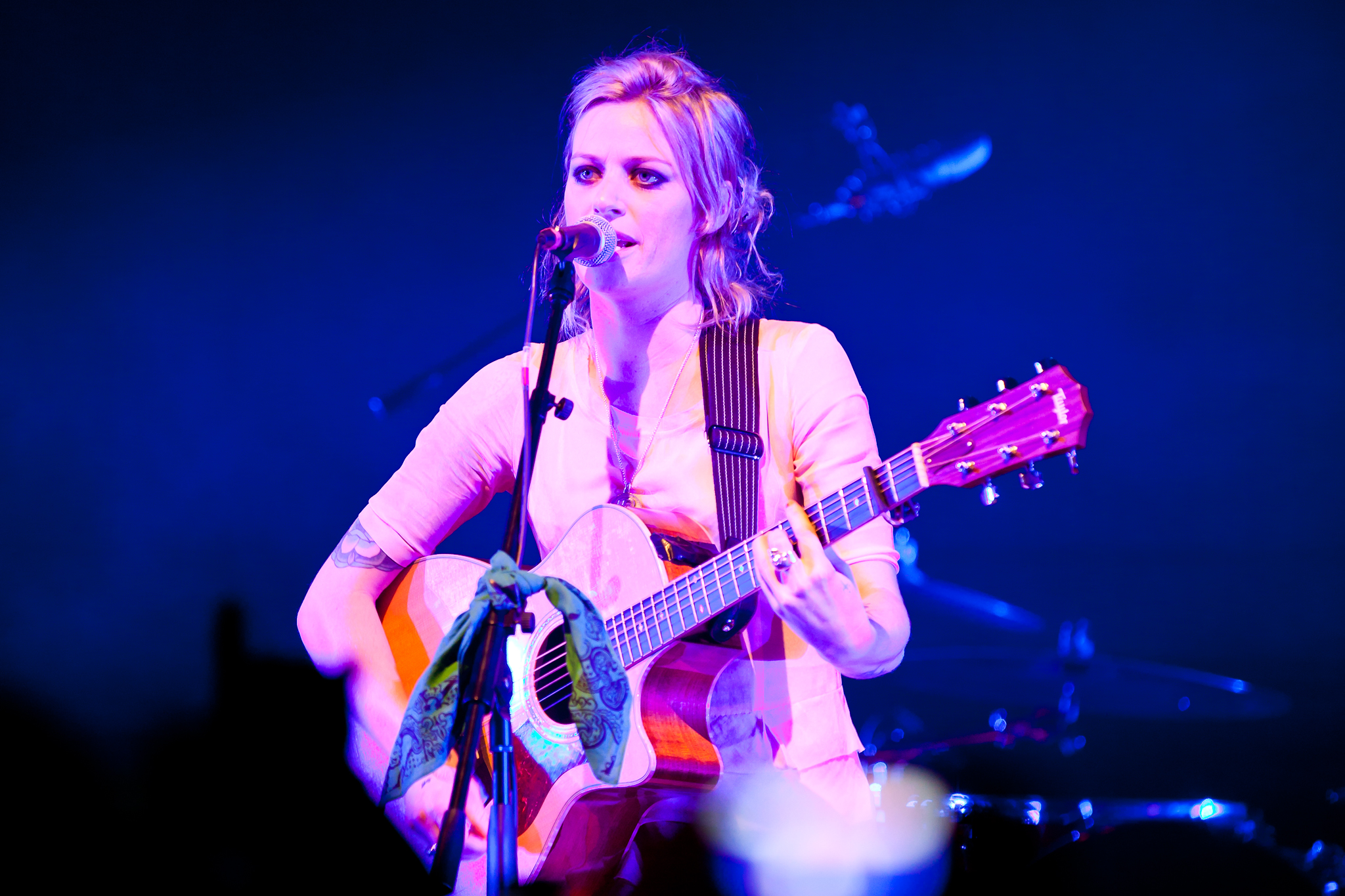 Gin Wigmore on stage in 2010